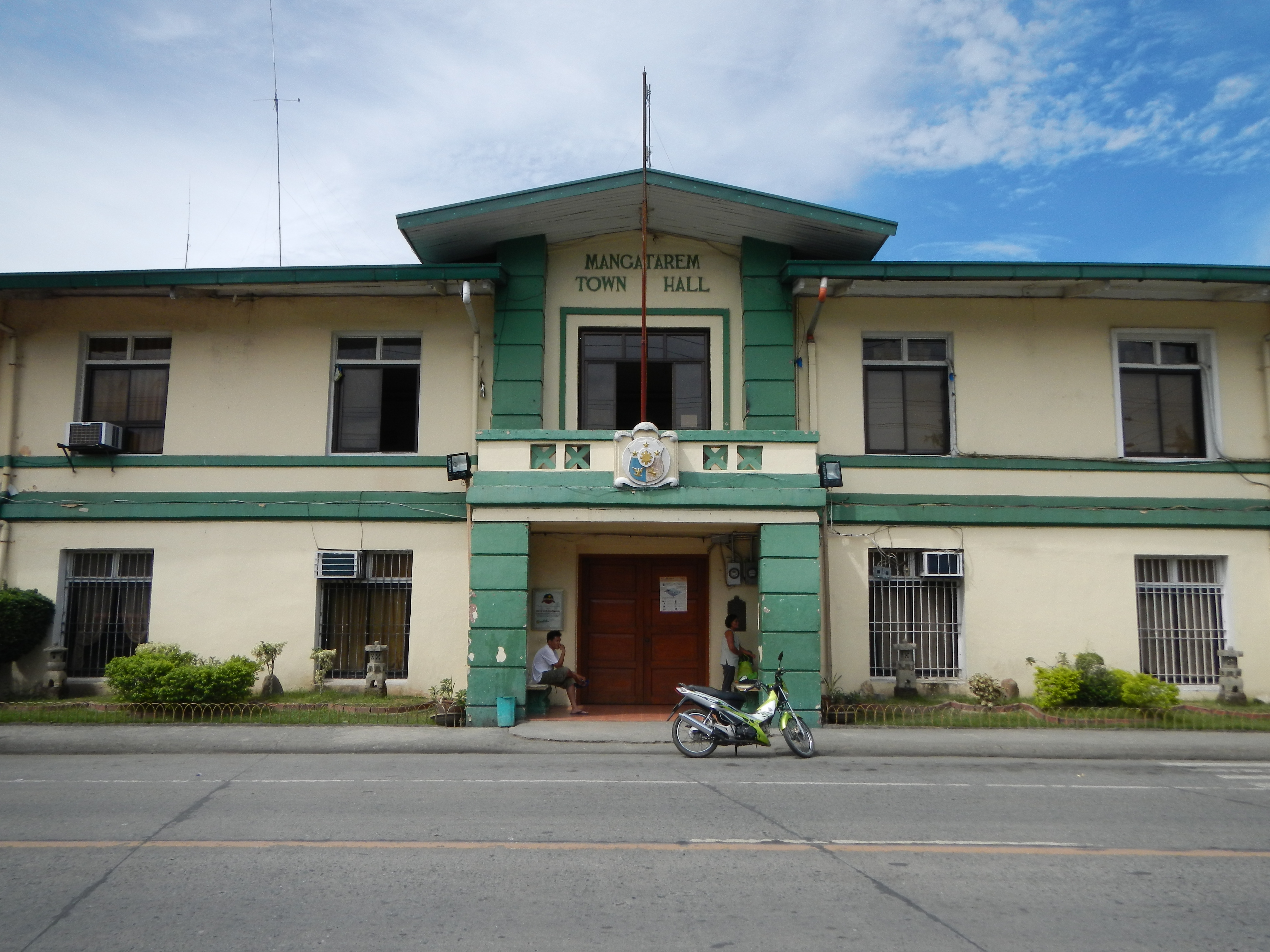 Mangatarem Town Hall (Old Building)[1] Coordinates: 15°47'25"N 120°17'36"E - Police Station, Legislative Building, Poblacion Area, Town Proper area, the Public market and business, commercial center -- at Mangatarem, Pangasinan[2] (a first class and largest municipality (in terms of land area) in the province of Pangasinan[3], Philippines with 2010 census population of 69,969 people Land Area: 317.50 km² ZIP Code: 2413.[4] [5] Coordinates: 15°44'20"N 120°16'57"E )